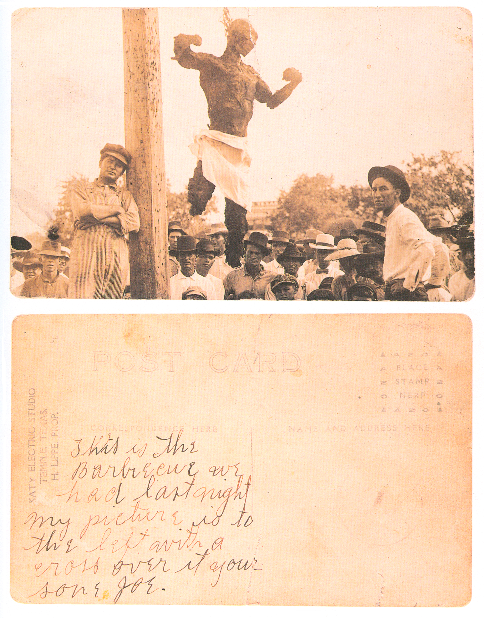 The charred body of Will Stanley, lynched by burning in Temple, Texas, July 29-30, 1915. The card bears the advertising stamp, "KATY ELECTRIC STUDIO TEMPLE TEXAS. H. LIPPE PROP." Inscribed in brown ink: 'This is the Barbecue we had last night my picture is to the left with a cross over it your son Joe." References From Crisis magazine, (January 1916). "The Burden". The Crisis 11 (3): 145. Patricia Bernstein (18 January 2006) The First Waco Horror: The Lynching of Jesse Washington and the Rise of the NAACP, Texas A&M University Press, pp. 58–59 ISBN: 978-1-58544-544-8. Wood, Amy Louise (2011) Lynching and Spectacle: Witnessing Racial Violence in America, 1890-1940, University of North Carolina Press, pp. 92-93, 108, 180 ISBN: 978-0-8078-7811-8. Miller, Rick (2011) "A Savage Lynching" in Bloody Bell County: Vignettes of Violence and Mayhem in Central Texas, Texas: Bell County Museum ISBN: 9781935632146.